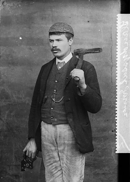 1 negative : glass, dry plate, b&w ; 11 x 8.5 cm.